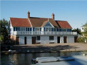 I took this photo. This is the boathouse from which CCAT BC and I boat from.